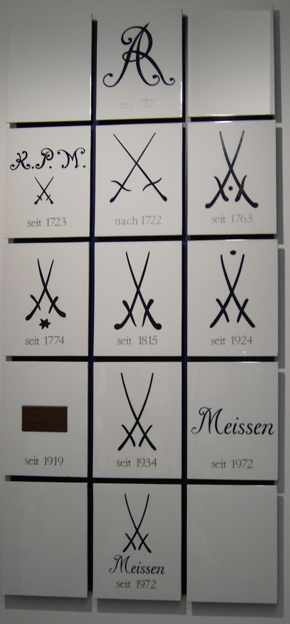 Meissen, Meissener porcelain museum. Tiles on the wall.